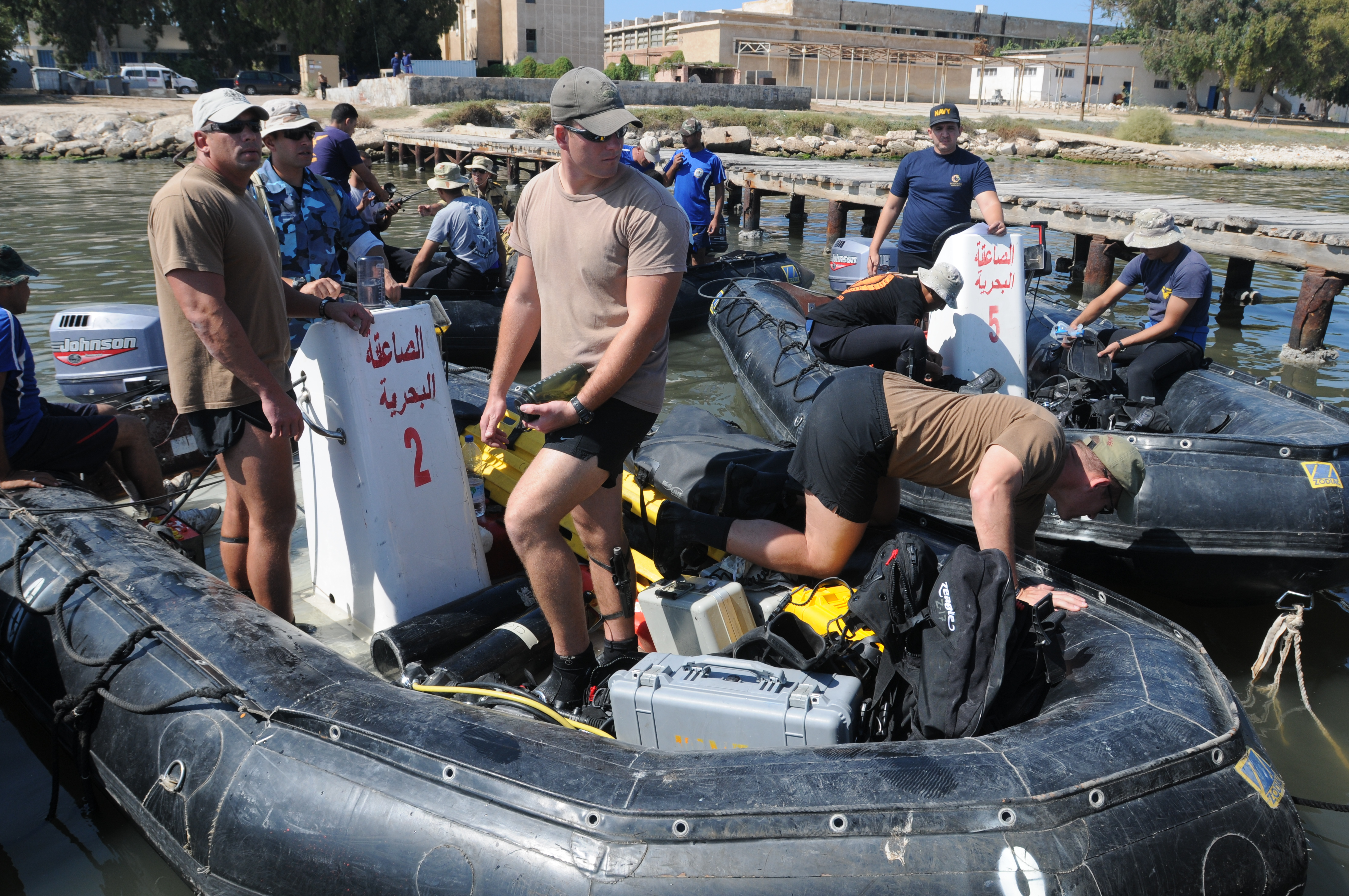 ALEXANDRIA, Egypt (Oct. 11, 2009) Sailors from Egyptian navy frogman units and U.S. Navy explosive ordnance disposal personnel prepare to get underway for a training evolution during Exercise Bright Star 2009. The multinational exercise is designed to improve readiness, interoperability, and strengthen military and professional relationships among U.S., Egyptian and other coalition forces. (U.S. Navy photo by Mass Communication Specialist 1st Brandon Raile/Released)